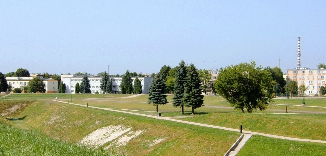 Planty, housing estate in Zamość